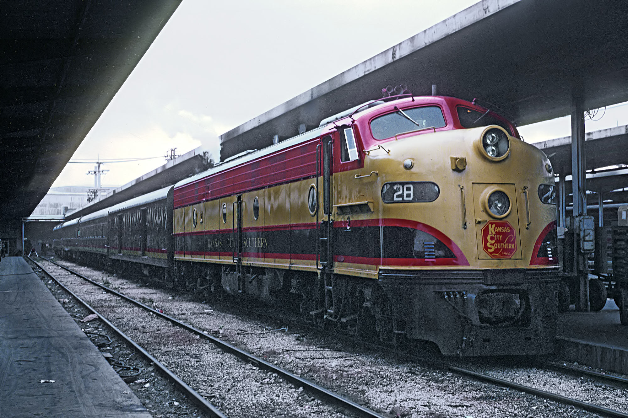 L&A (Louisiana and Arkansas Railway) Train 10, The Flying Crow, at New Orleans Union Terminal on November 22, 1967. A Roger Puta Photograph A New Orleans railfan comments: "It's more likely the KCS "Southern Belle," since the Flying Crow went from KC to Houston. The Southern Belle connected Kansas City with New Orleans from 1940 until 1969."